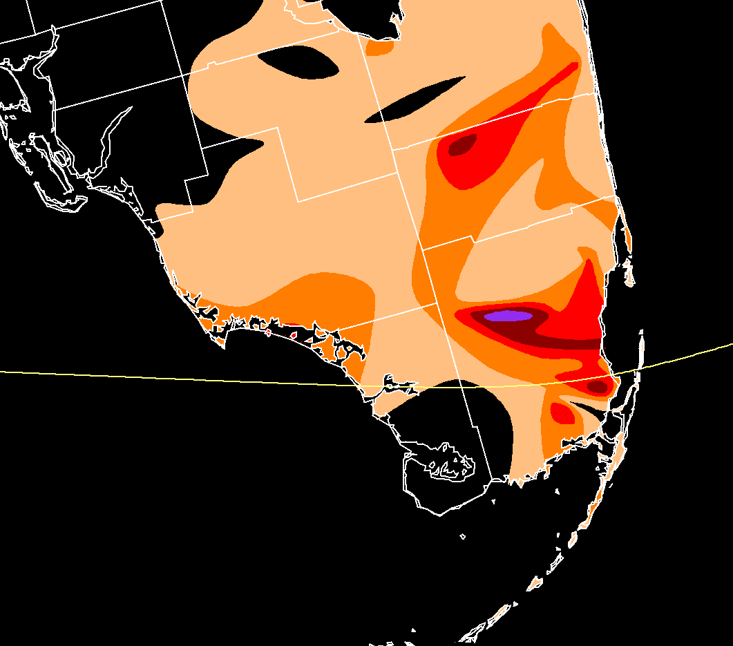 Storm total rainfall map of Hurricane Andrew in South Florida during August 1992.